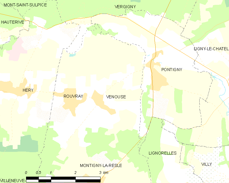 Map of French municipality Venouse